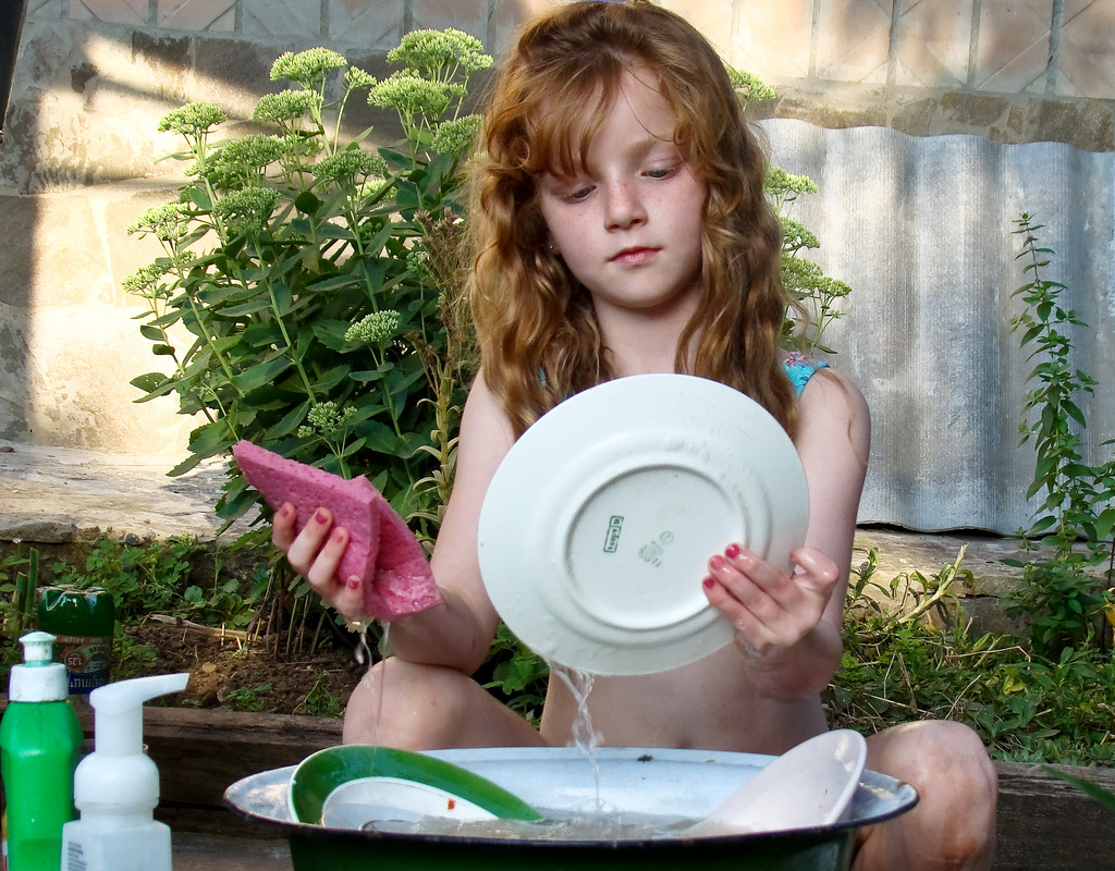 If you tell Alina "Go wash the dishes," she'll never do. But she will gladly go play with dishes and soap in water! And that's how it goes :)